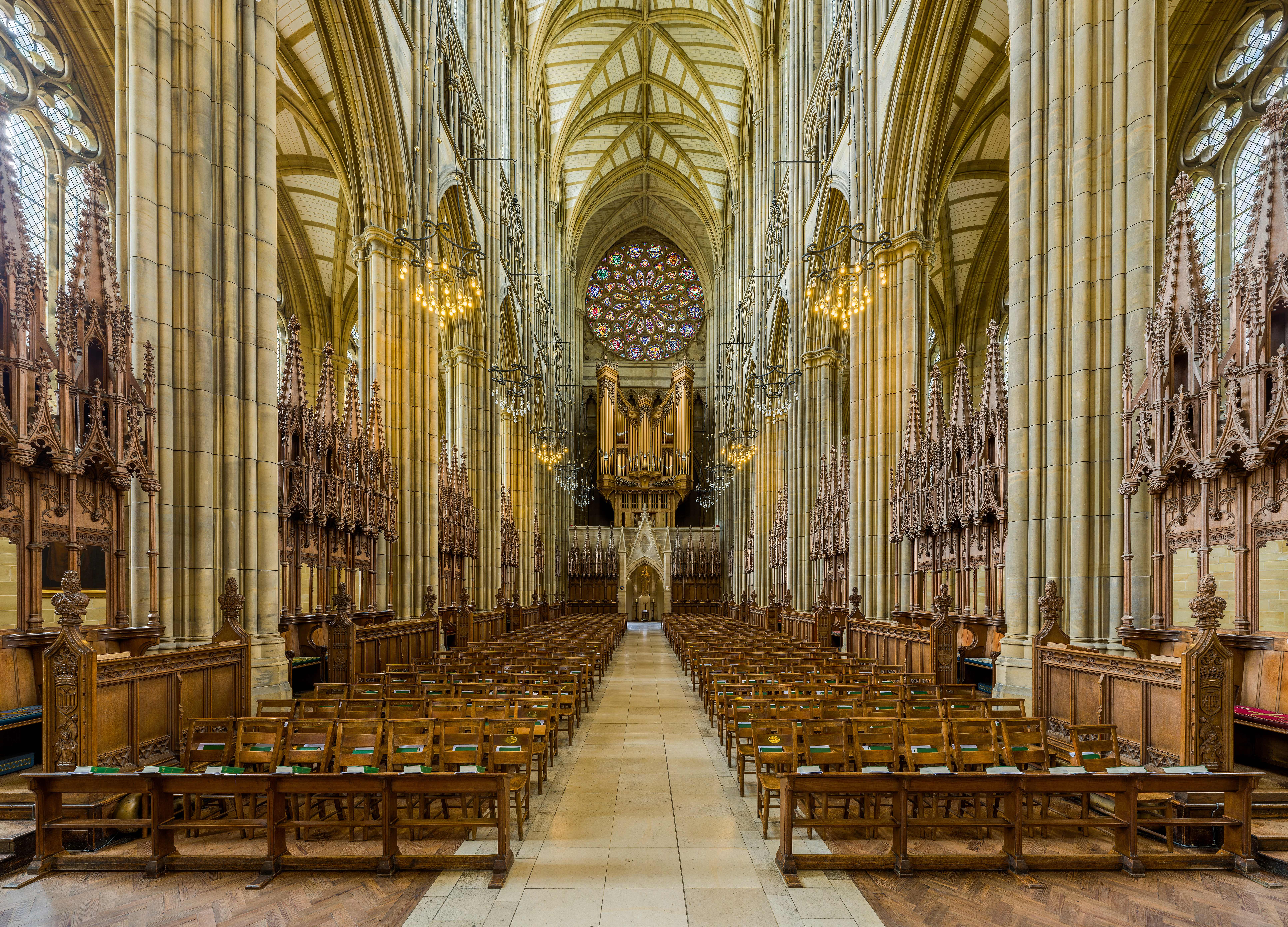 The nave of Lancing College Chapel facing west in West Sussex, England.